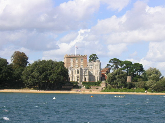 Branksea Castle, Brownsea Island, Poole. Image taken from the ferry when returning to Poole Quay.